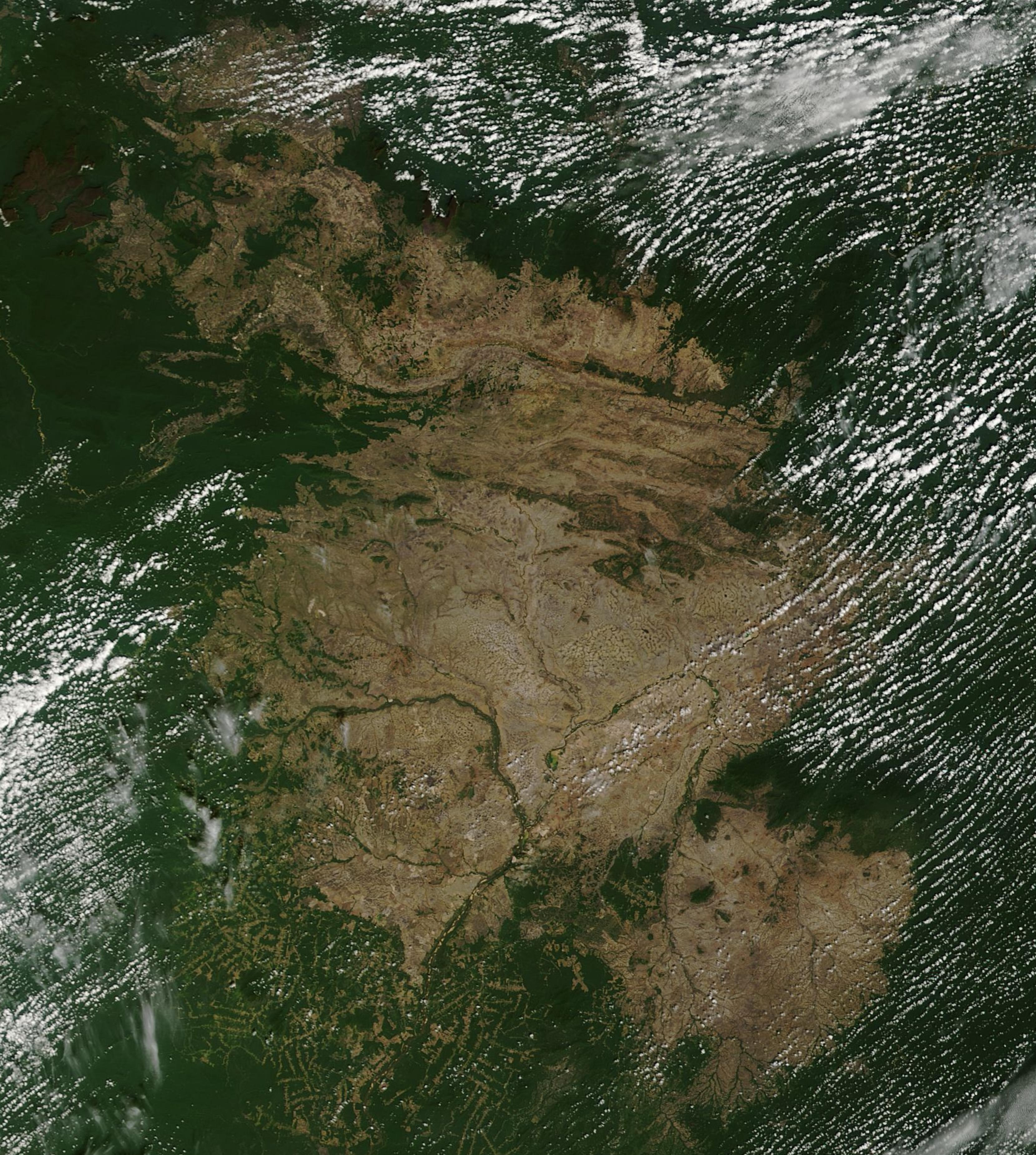 Satellite image of the main section of Guianan savanna, located in southeastern Venezuela, in the Brazilian state of Roraima and in western Guiana.